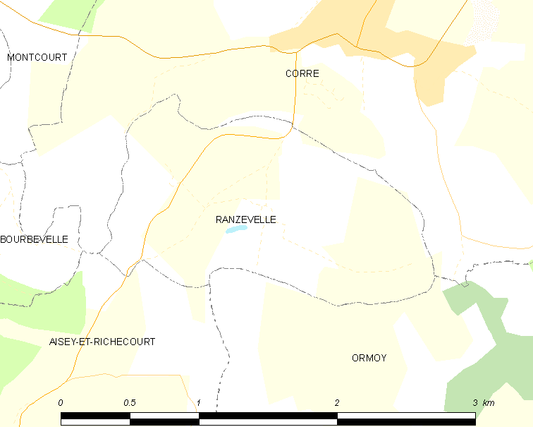 Map of French municipality